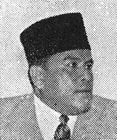 Indonesian writer Abdul Malik Karim Amrullah (Hamka)